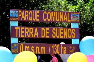 Parque Comunal Tierra de sueños